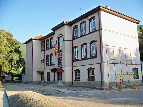 Elementary school in Zrnovci, Republic of Macedonia